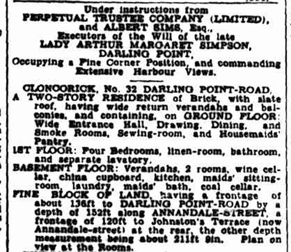 Advertisement in the newspaper for the sale of Cloncorrick, Darling Point, Sydney in 1933